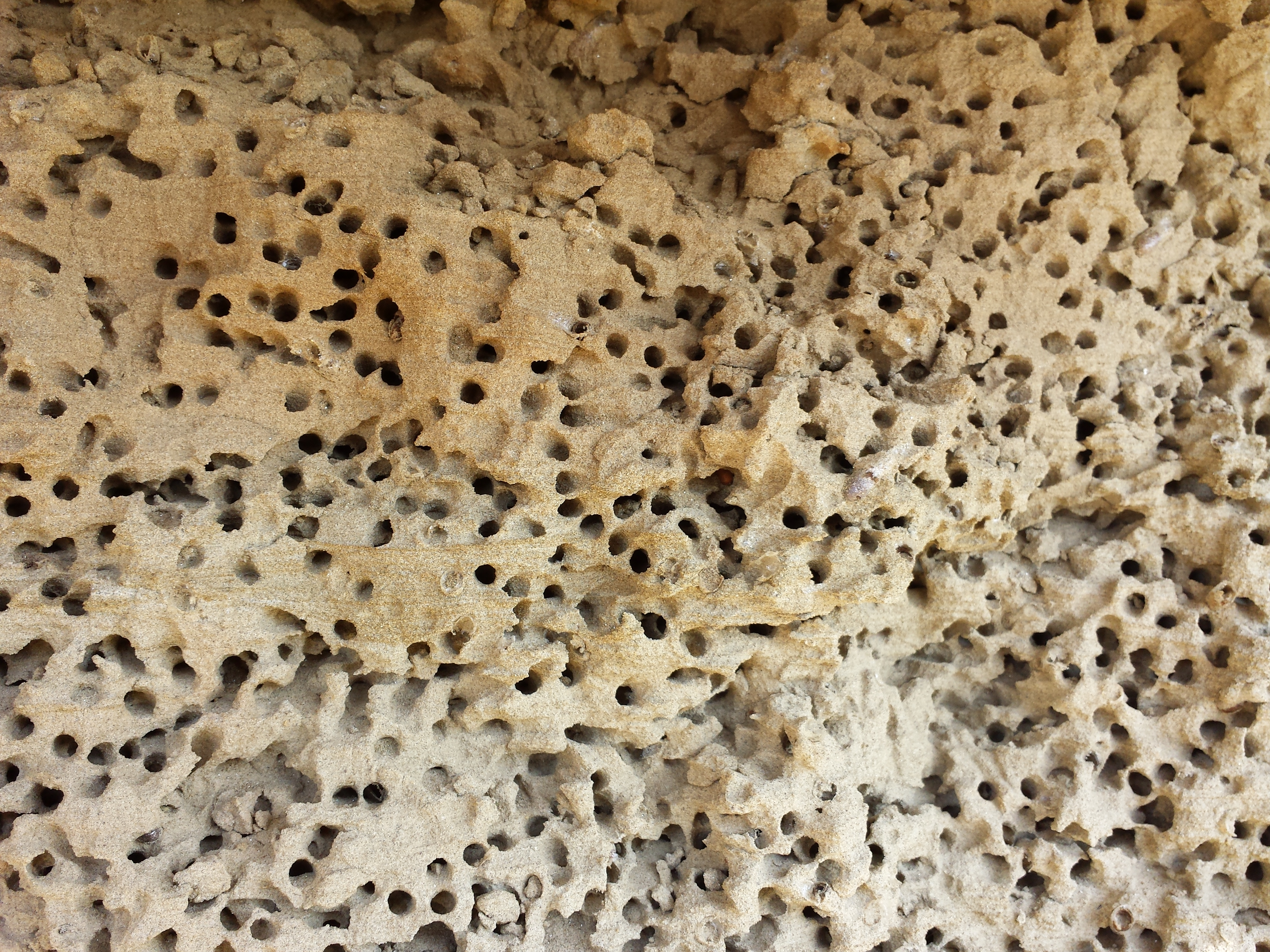 Loess wall near Großebersdorf, district Mistelbach, Lower Austria Loess with tubes digged by insects